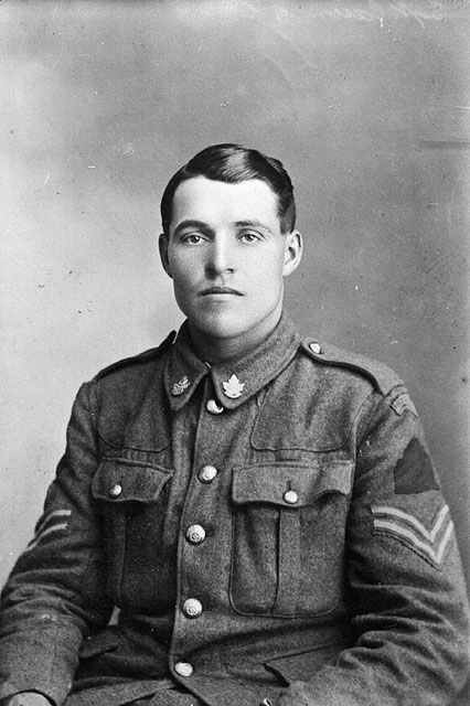 Depicted person: Hugh Cairns – Recipient of the Victoria Cross